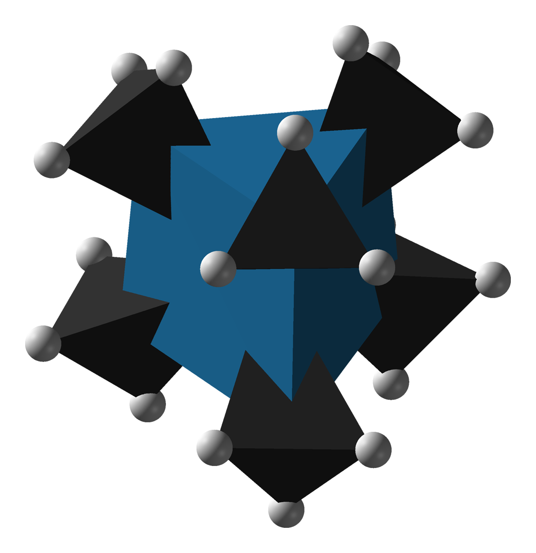 Polyhedral model of the hexamethyltungsten molecule, W(CH3)6